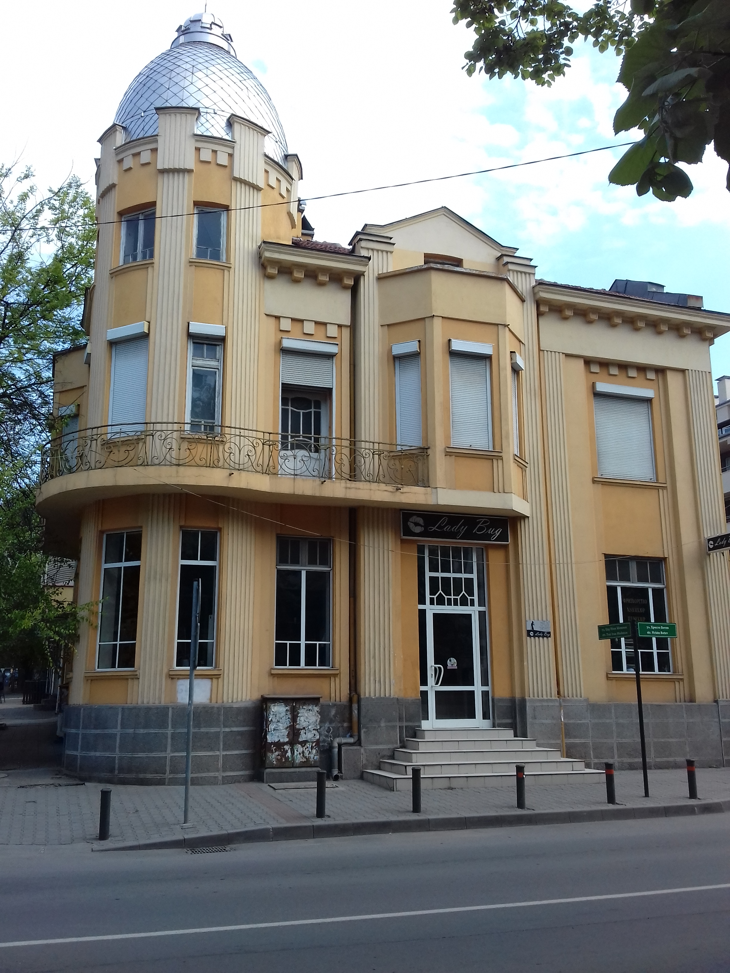 Kolfalchevi house in Stara Zagora, Bulgaria